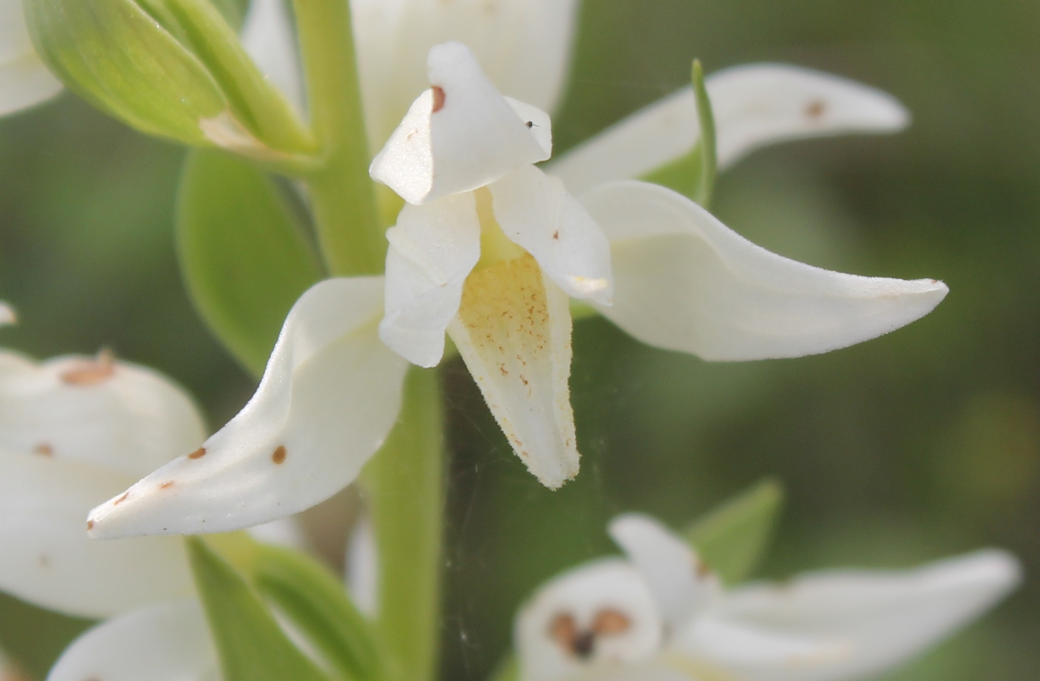 Cephalanthera epipactoides flower